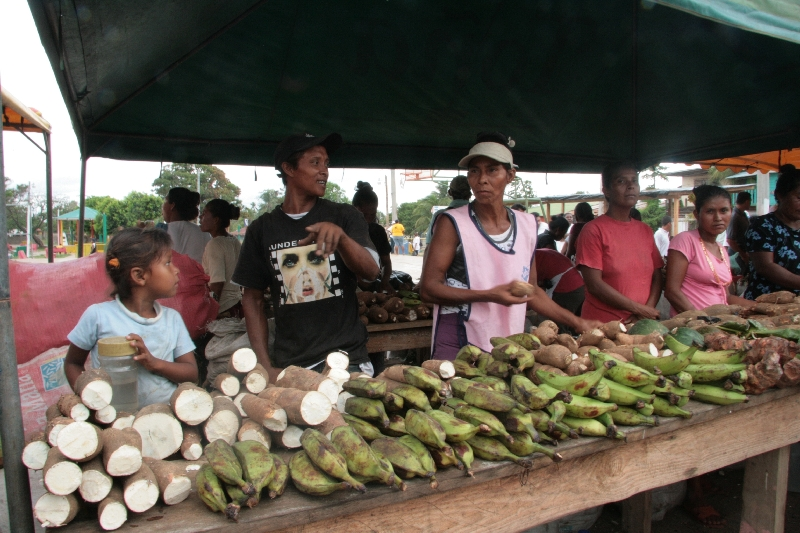 Bilwi (Puerto Cabezas), Nicaragua